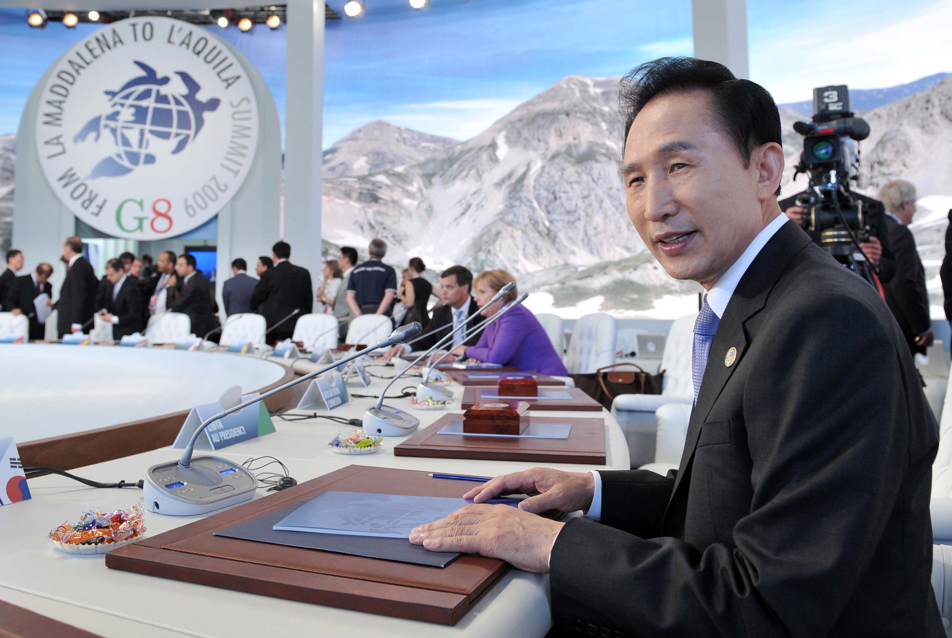 G8 Summit 2009 in L'Aquila, Italy